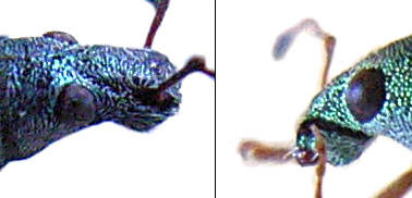 Phyllobius and Polydrusus heads